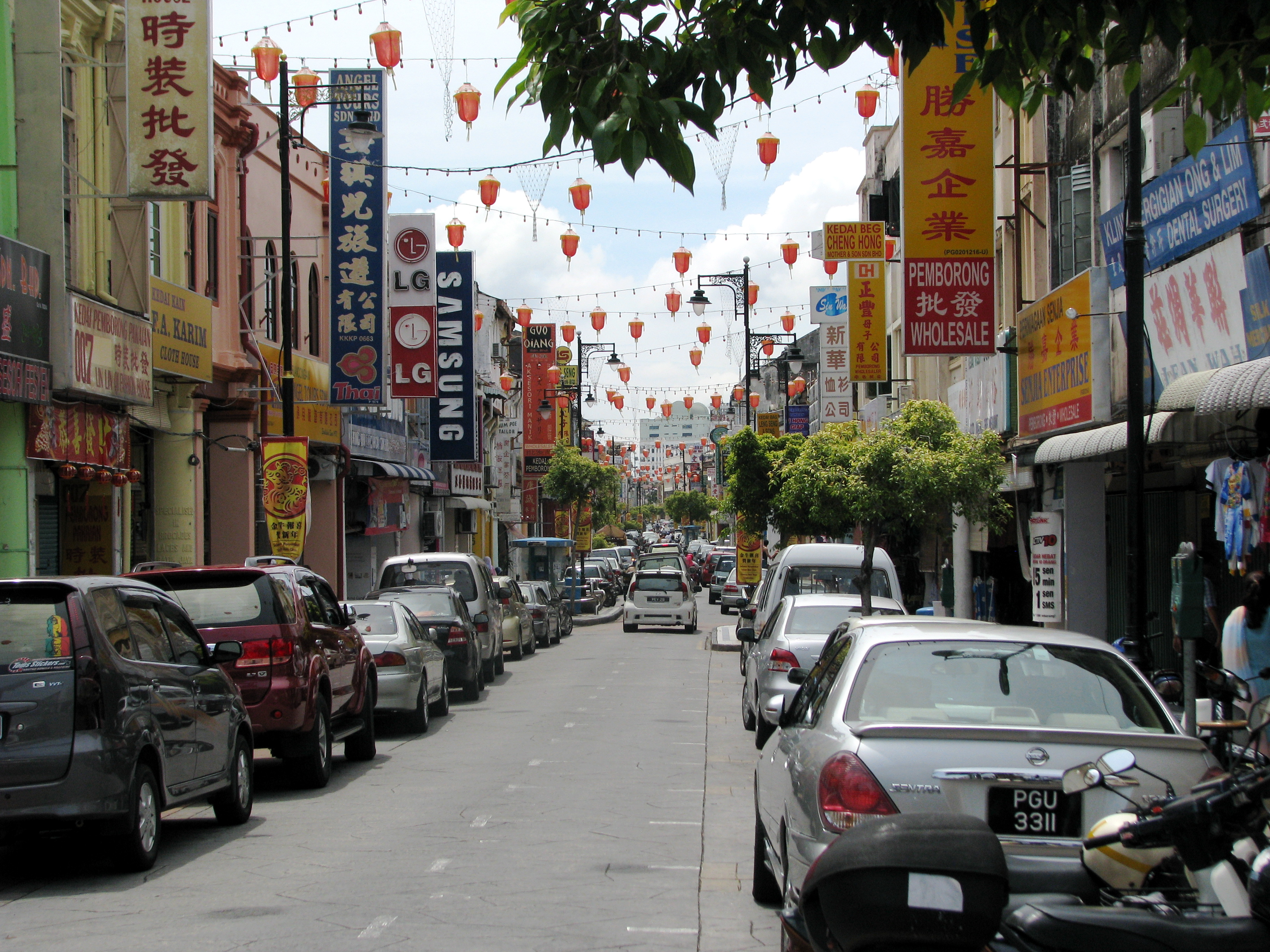 Georgetown in Penang is a blend of rich cultures, literally changing one block to another. This is Campbell Street. Chinatown's streets were typically festive looking. Georgetown, like most spots in the world seemed crushed under an explosion of cars it didn't know where to put.